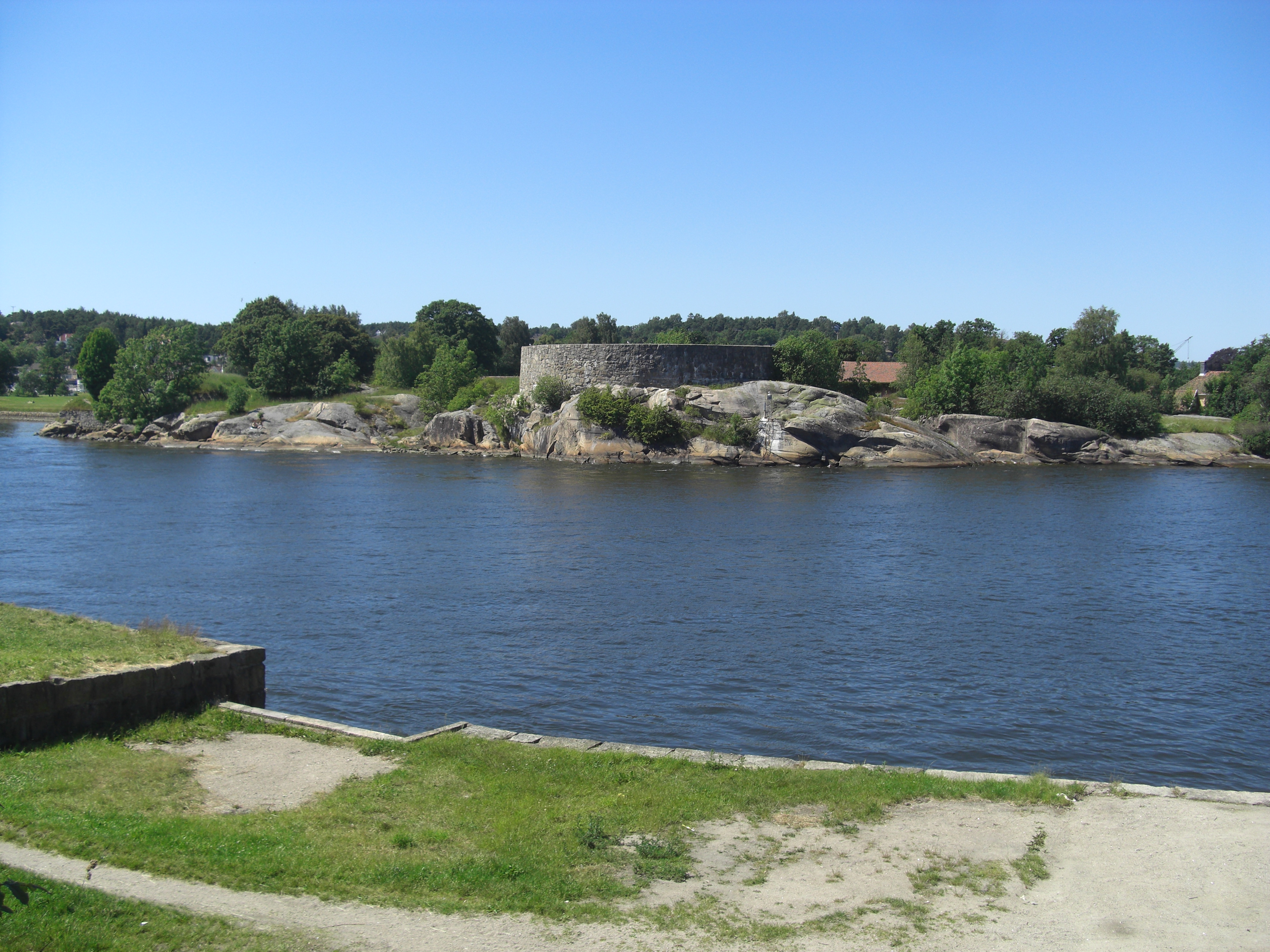 Isegran Fort